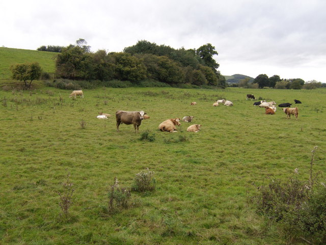 Cattle on the Wye meadows. By the B4399 near Holme Lacy.